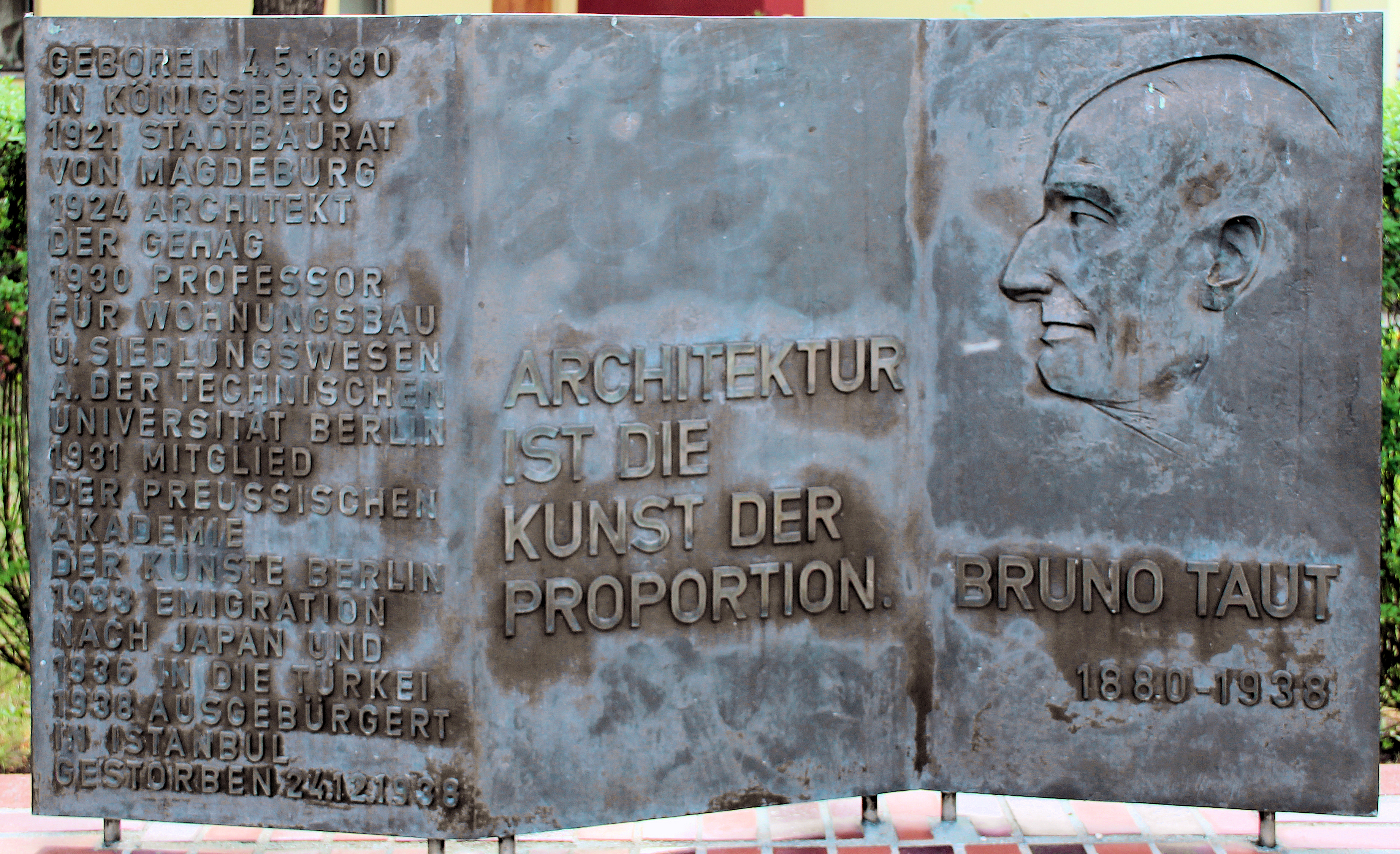 Memorial plaque, Bruno Taut, Riemeisterstraße 131, Berlin-Zehlendorf, Germany